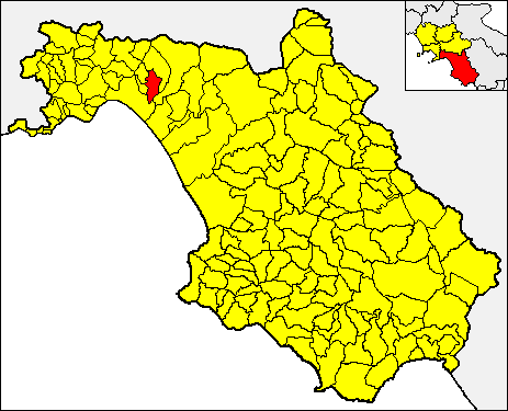 Locator map of the municipality of San Cipriano Picentino (red) within the Province of Salerno